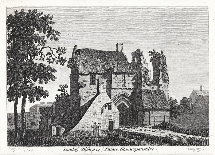 A view of Llandaff Castle with a man with a pitchfork and a woman in the foreground.